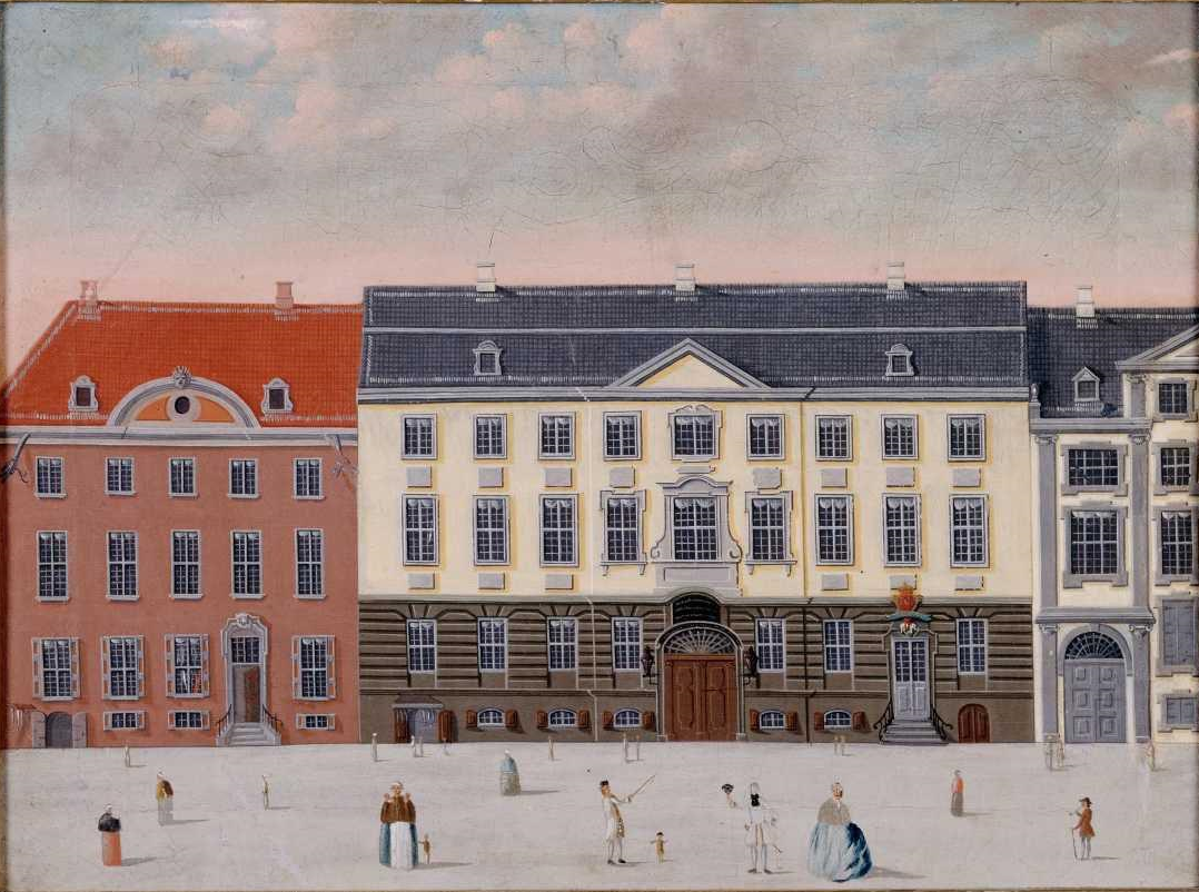 Apoteker Beckers gård i Købmagergade. Indgangen til Elefant-apoteket til højre. Over døren skiltet med elefanten. Huset til venstre tilhørte købmand Wasserfall, med forretning i stueetagen.